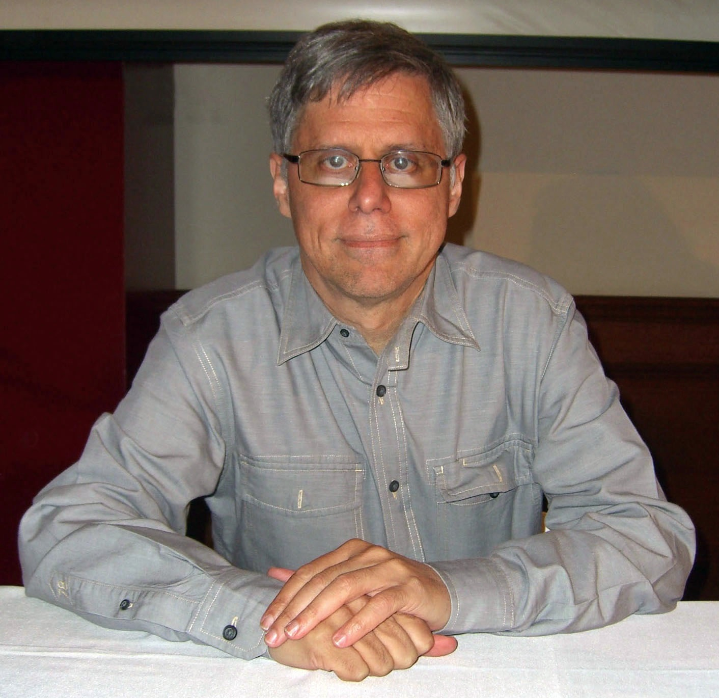 Comics creator Paul Levitz at the Comic New York symposium at Columbia University's Low Memorial Library on March 24, 2012. This photo was created by Luigi Novi. It is not in the public domain, and use of this file outside of the licensing terms is a copyright violation.